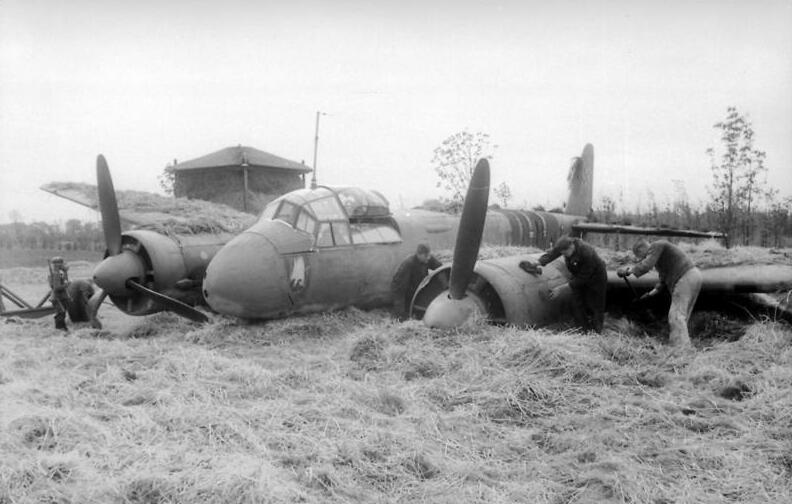 Information added by Wikimedia users.